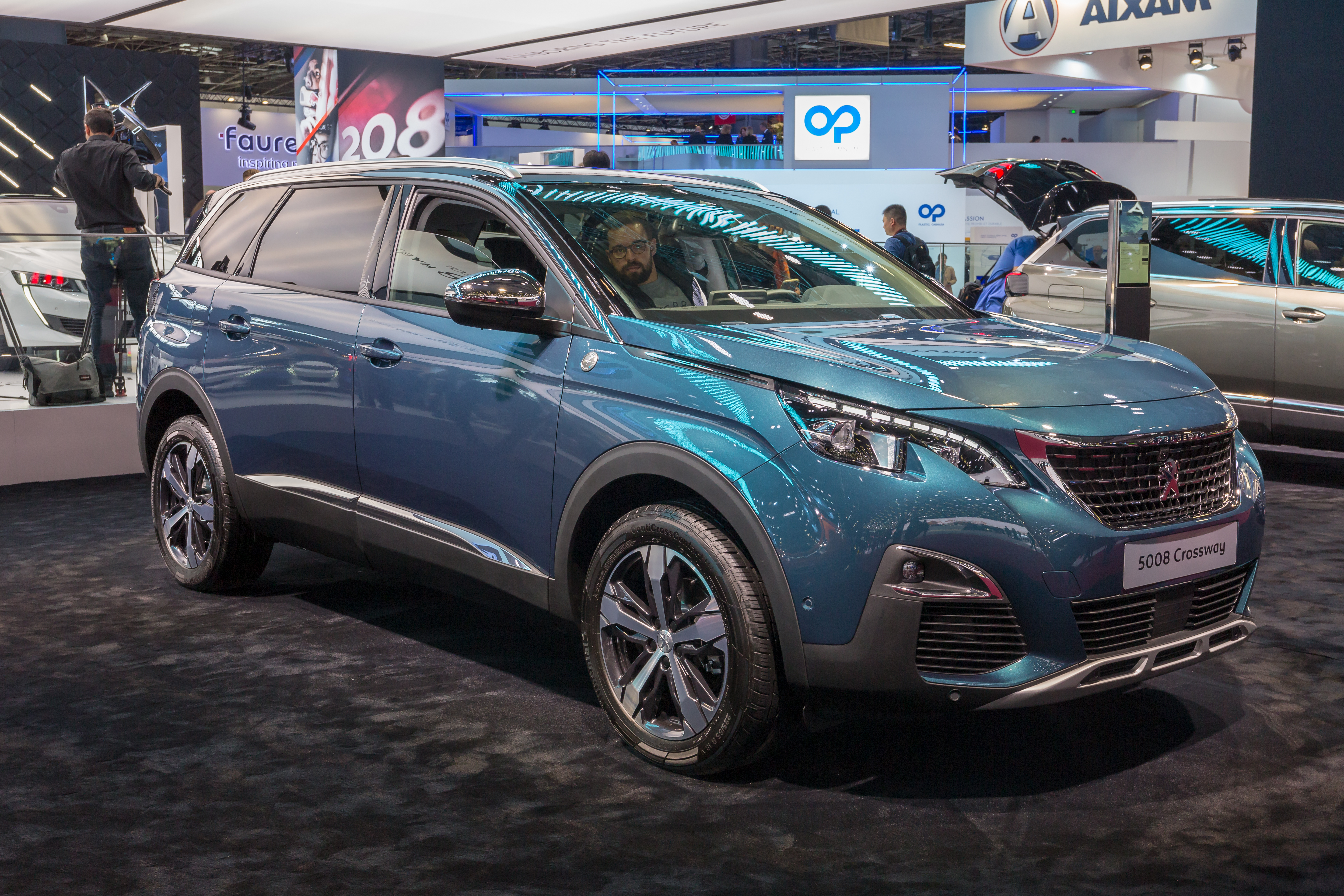 Peugeot 5008 Crossway, Mondial Paris Motor Show 2018